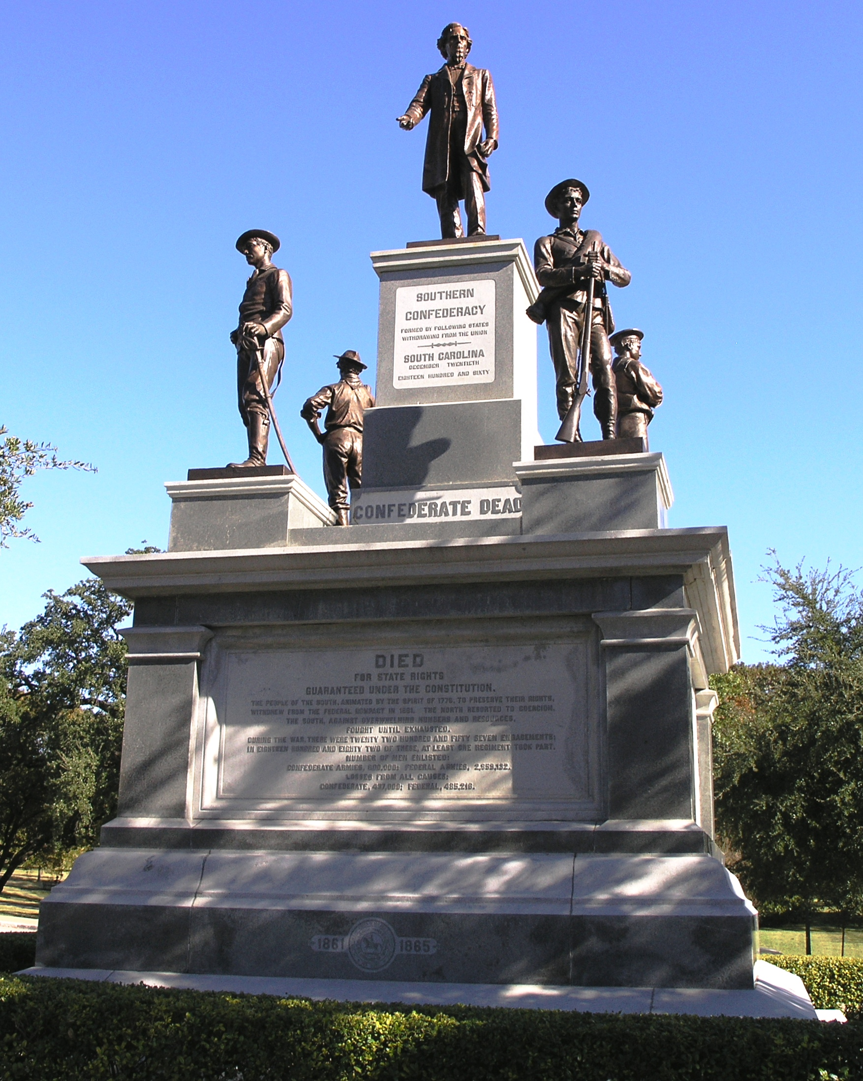 The Confederate Soldiers Monument on the Texas State Capitol grounds, Austin, Texas, United States. The monument was installed in 1903.